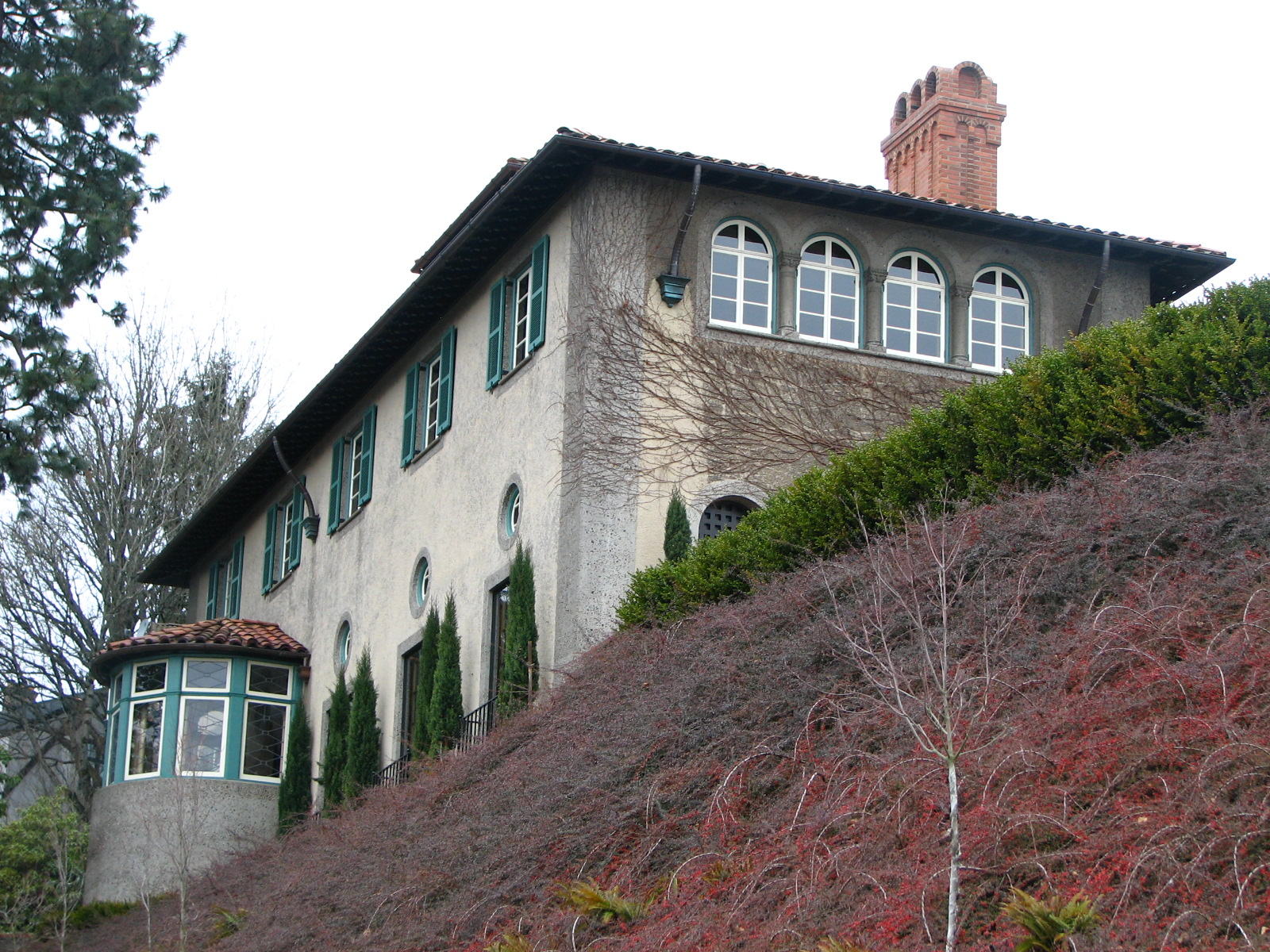 The historic Eastman–Shaver House (built 1928), located at 2645 Northwest Beuhla Vista Terrace in Portland, Oregon, United States, is listed on the US National Register of Historic Places.